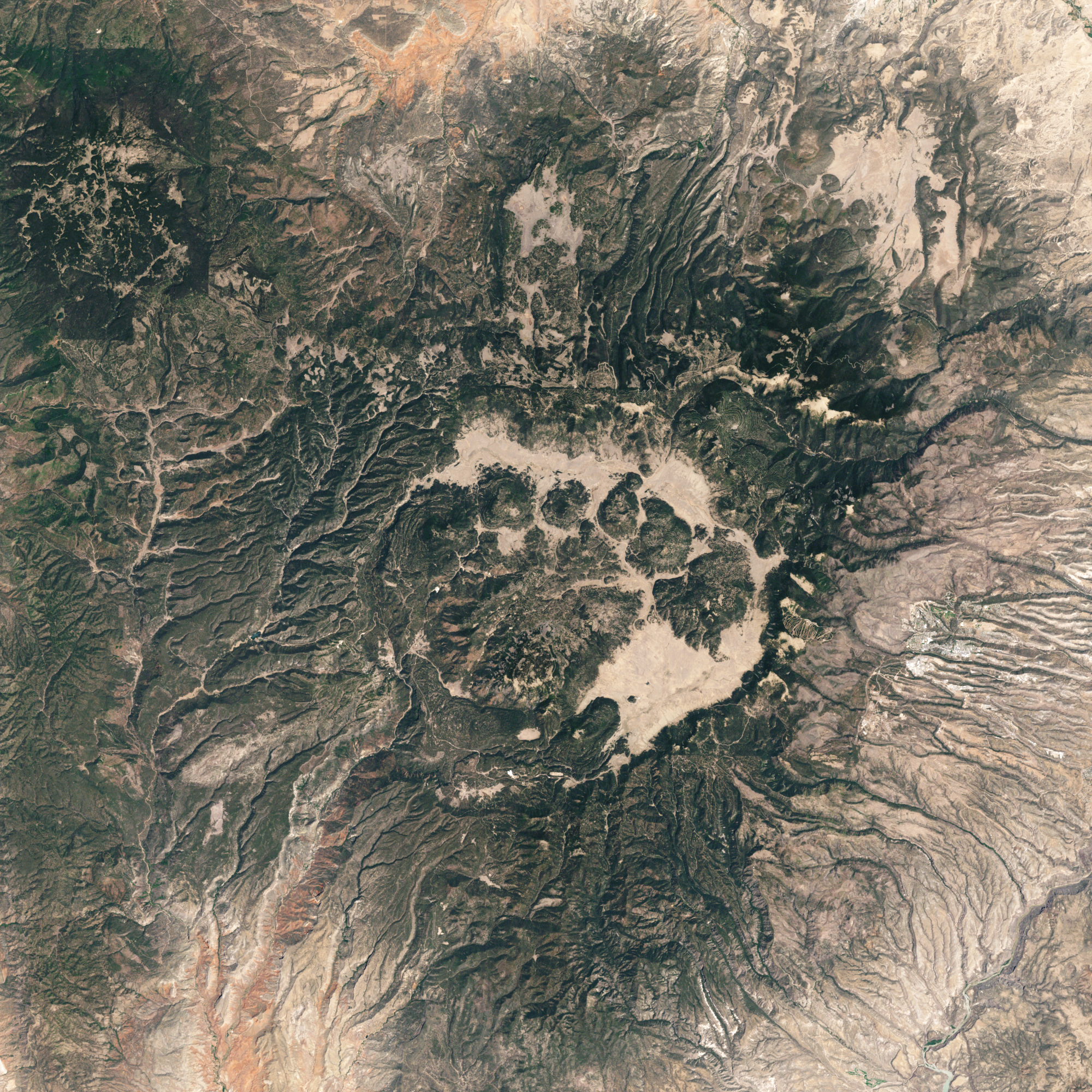 Natural-colour image of Valle Caldera, New Mexico, USA. Image capture by the Enhanced Thematic Mapper Plus on the Landsat 7 satellite.